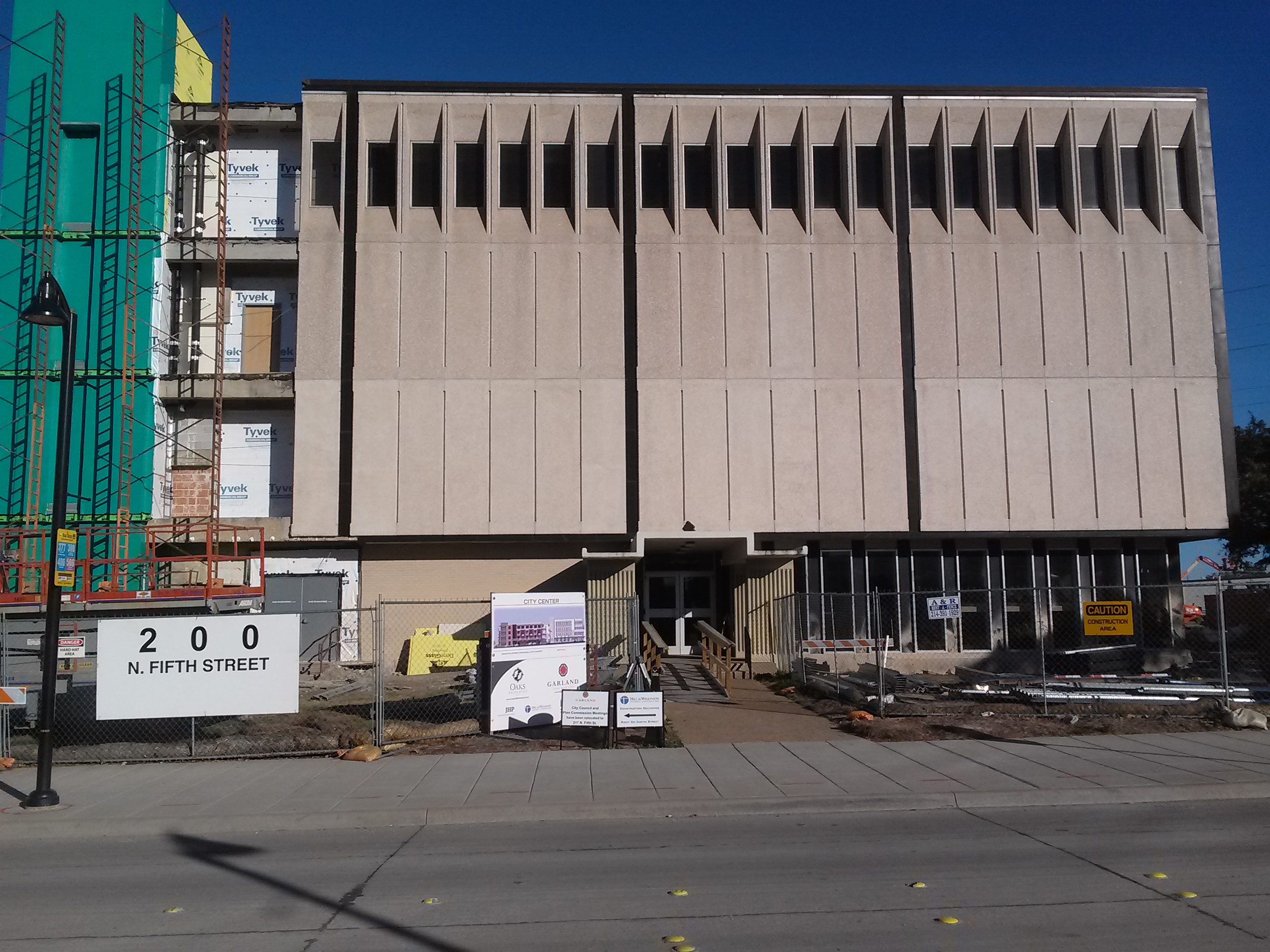 Garland City Hall